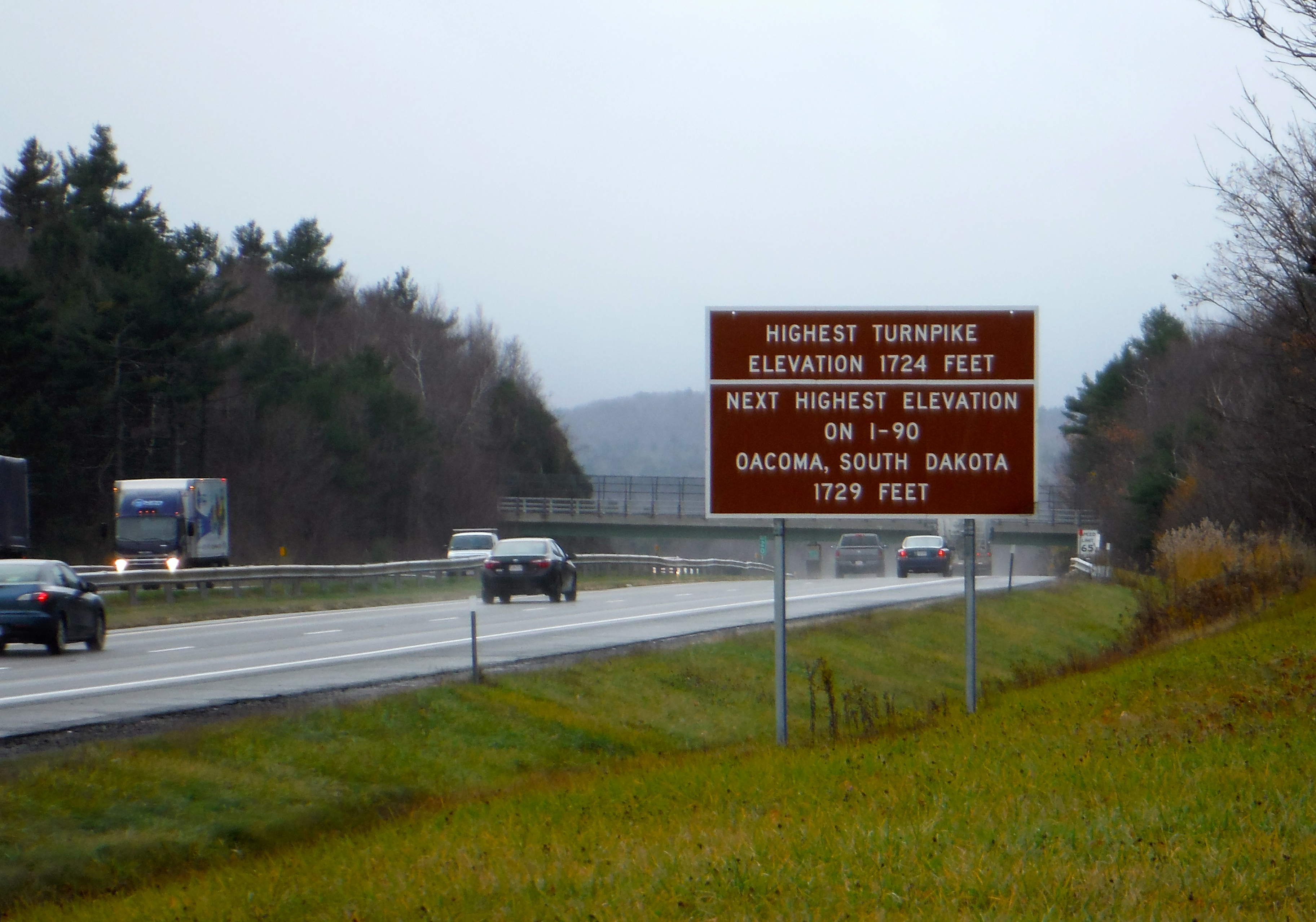 High point in Mass on I-90